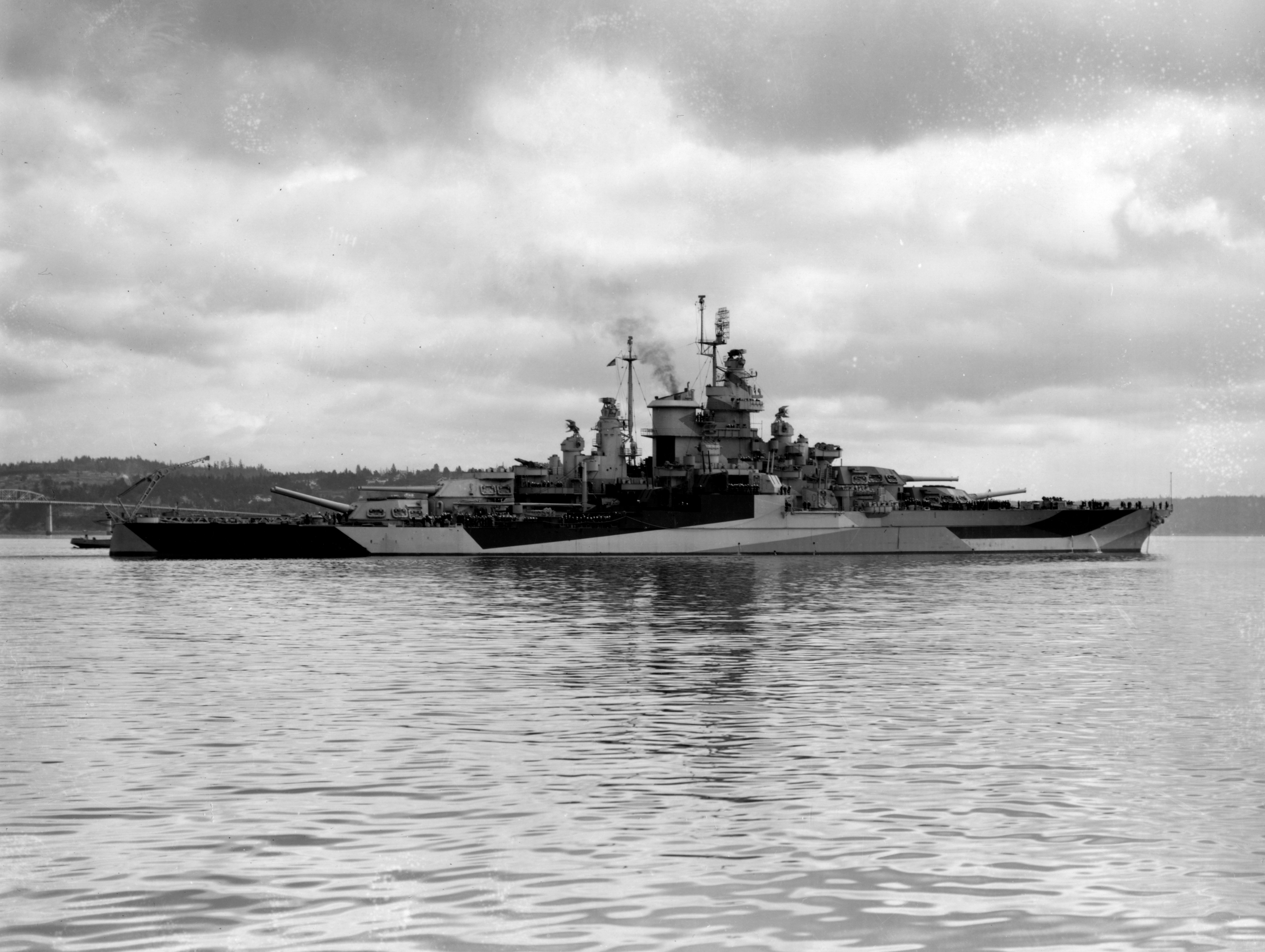 The U.S. Navy battleship USS West Virginia (BB-48) off the Puget Sound Naval Shipyard, Washington (USA), 2 July 1944, following reconstruction. She is painted in Camouflage Measure 32, Design 7D.